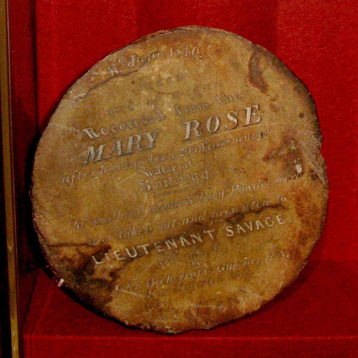 Photo of a cannon ball that was recovered from the Mary Rose by John Deane. It was then engraved and sold as a souvenir.